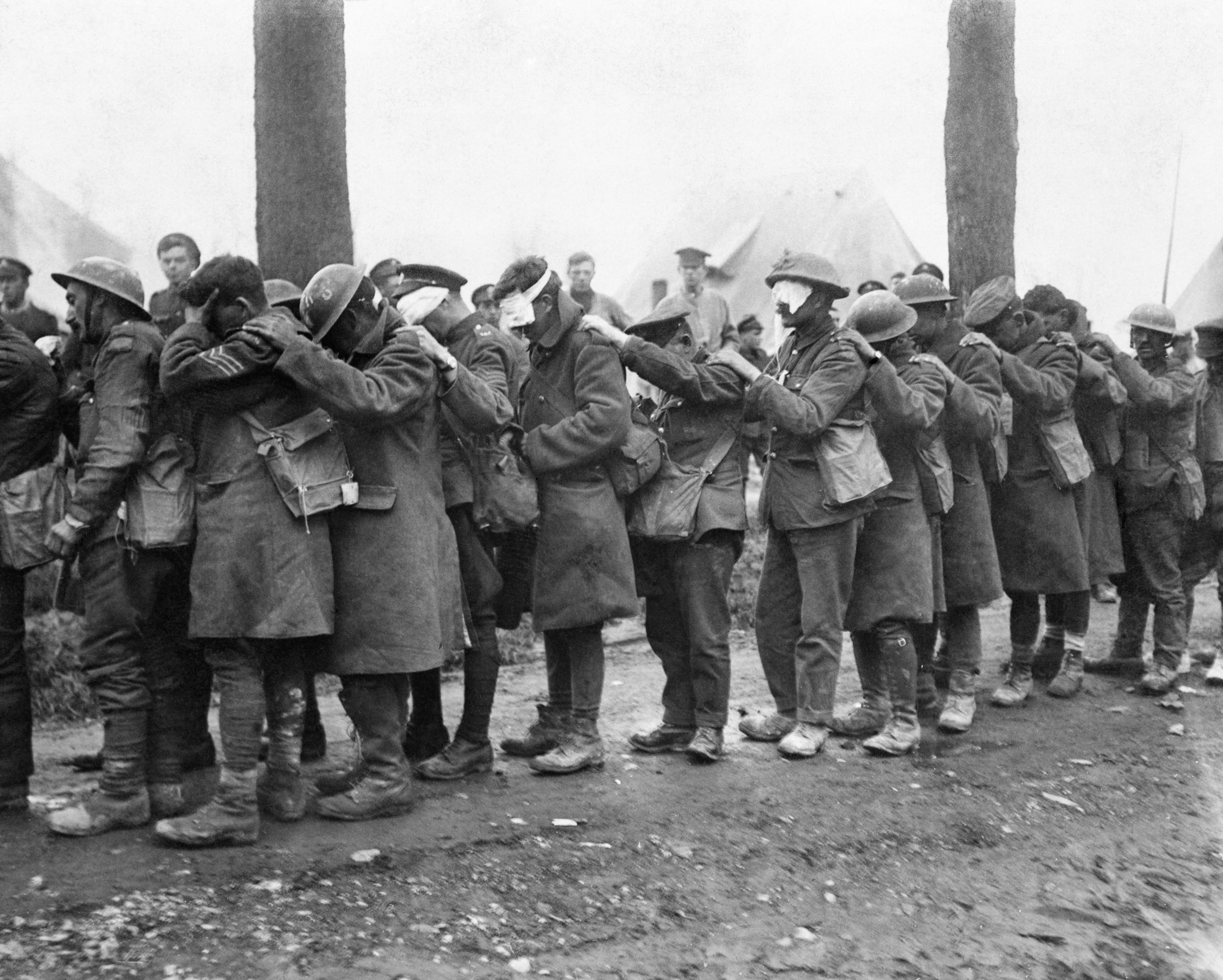 British 55th (West Lancashire) Division troops blinded by tear gas await treatment at an Advanced Dressing Station near Bethune during the Battle of Estaires, 10 April 1918, part of the German offensive in Flanders.